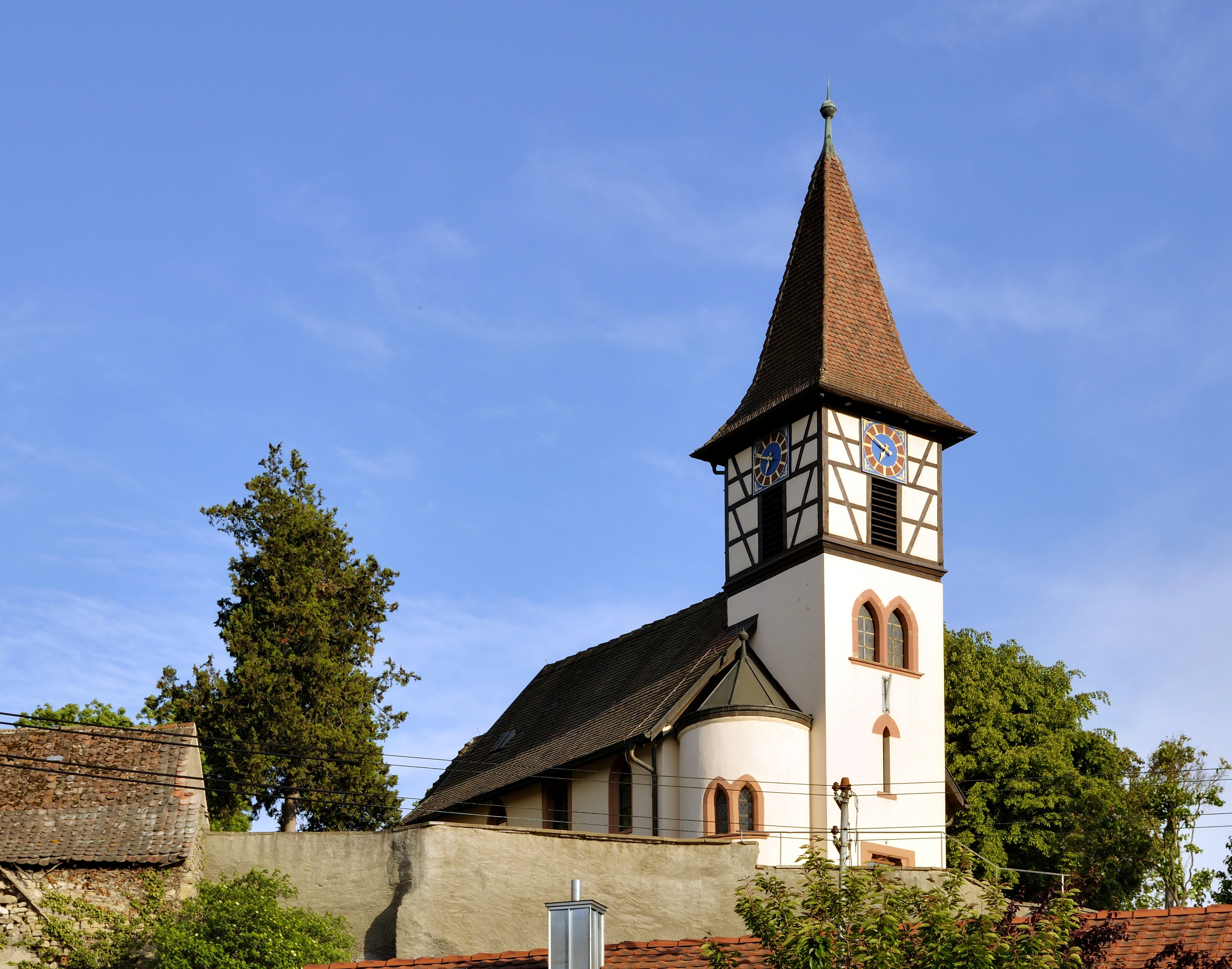 Kleinkems: Protestant Church.